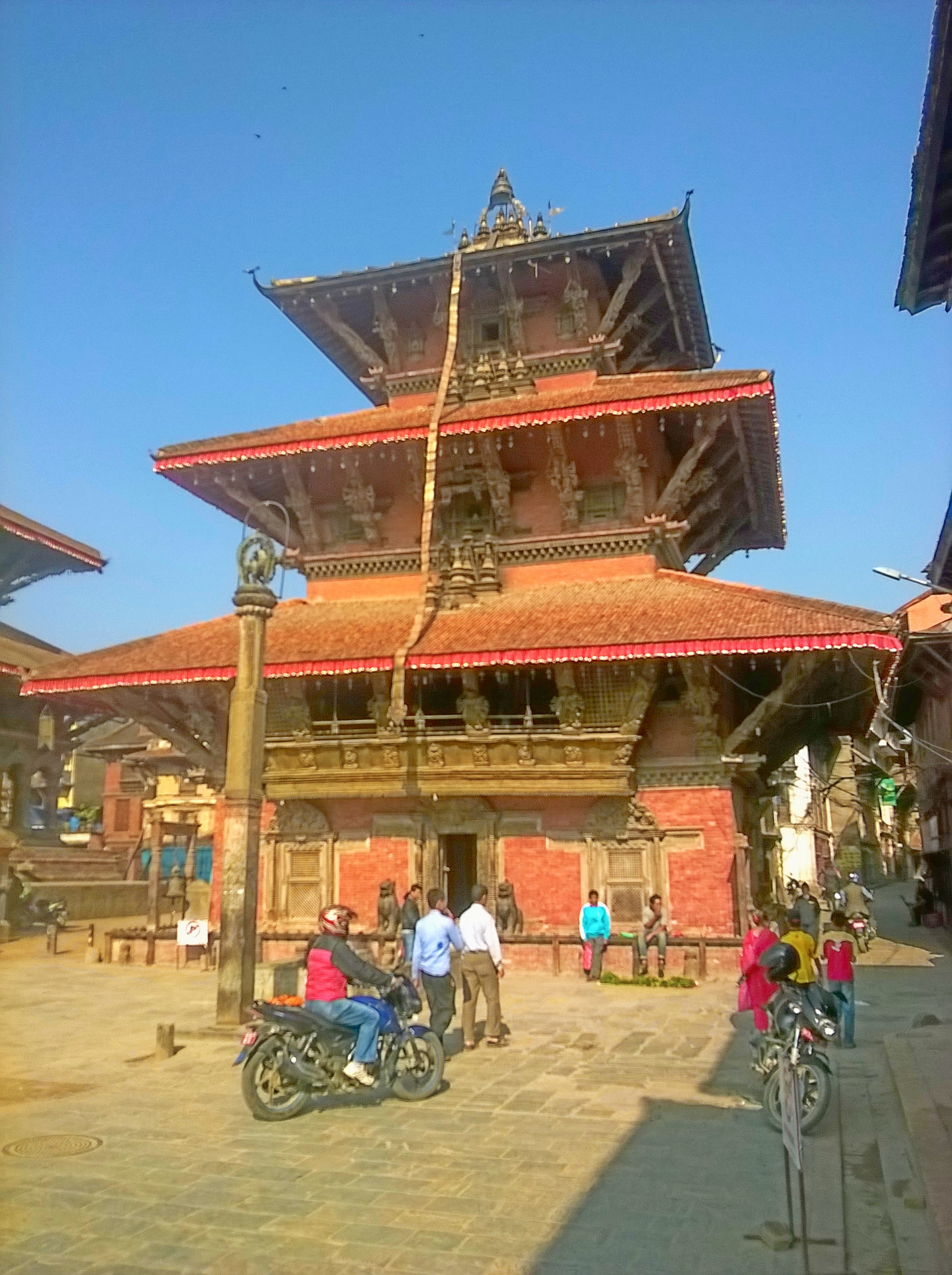 Bhimsen Mandir at the heart of Patan,Mangalbazaar, renowned among the locals especially on the day of Bhimsen Jatra.